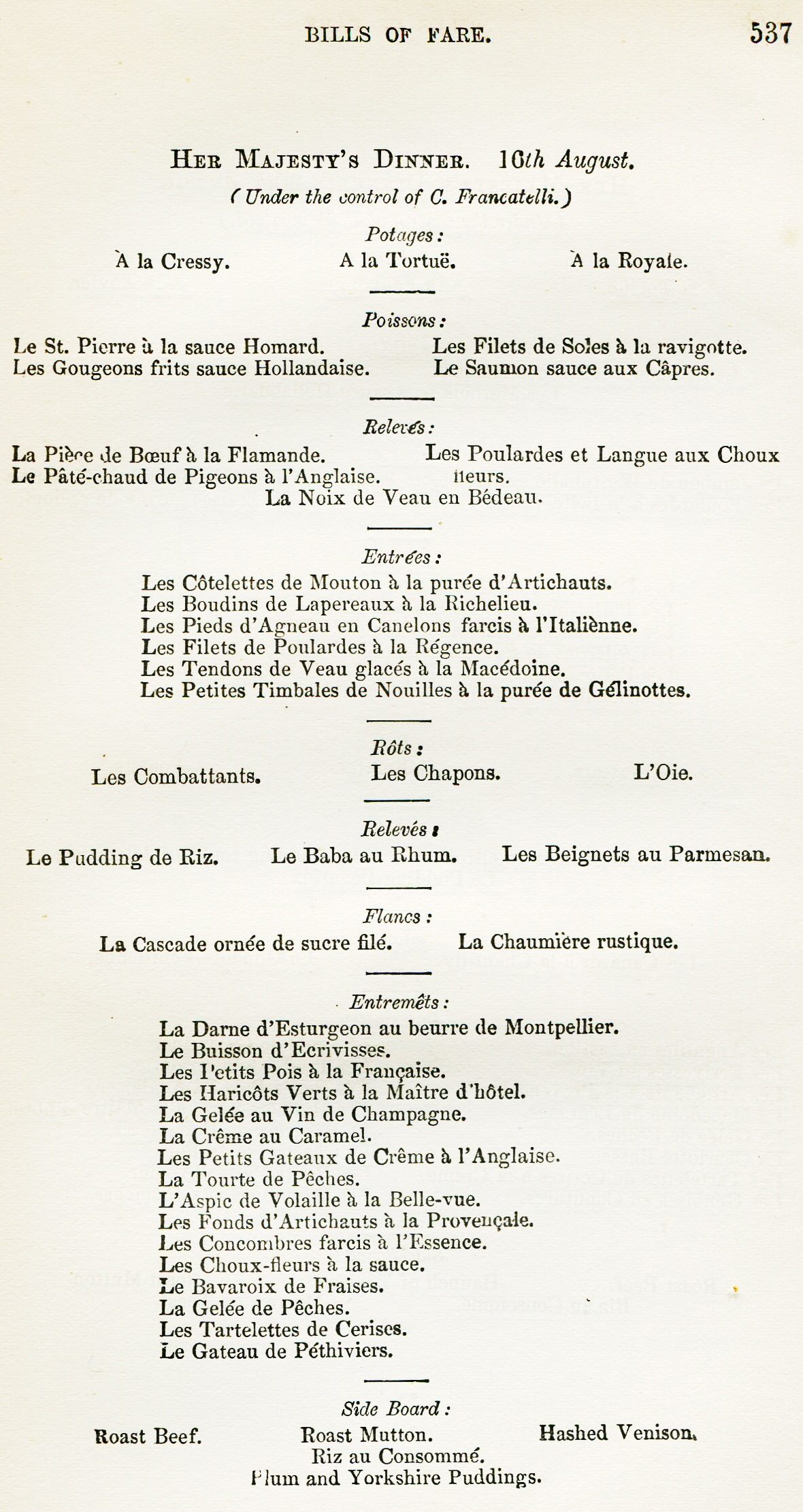 A Bill of Fare for a dinner for Her Majesty Queen Victoria in Charles Elmé Francatelli's The Modern Cook